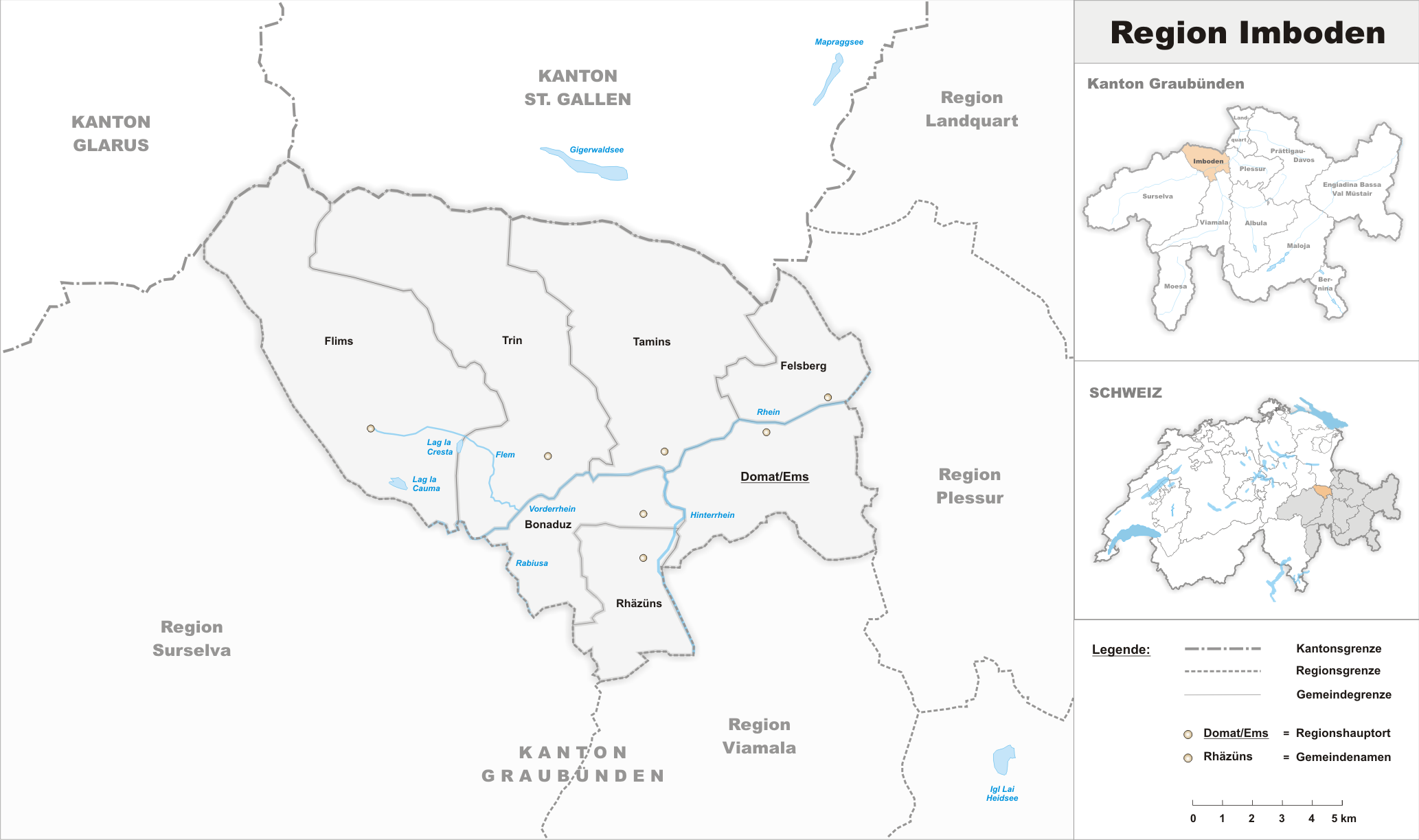 Municipalities in the district of Imboden